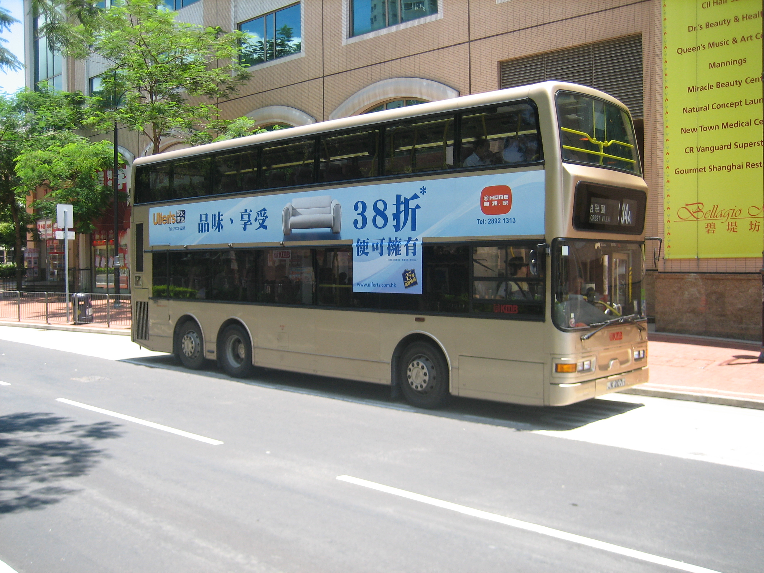 KMB Route 234A Dennis "Trident 3" 10.6m bus